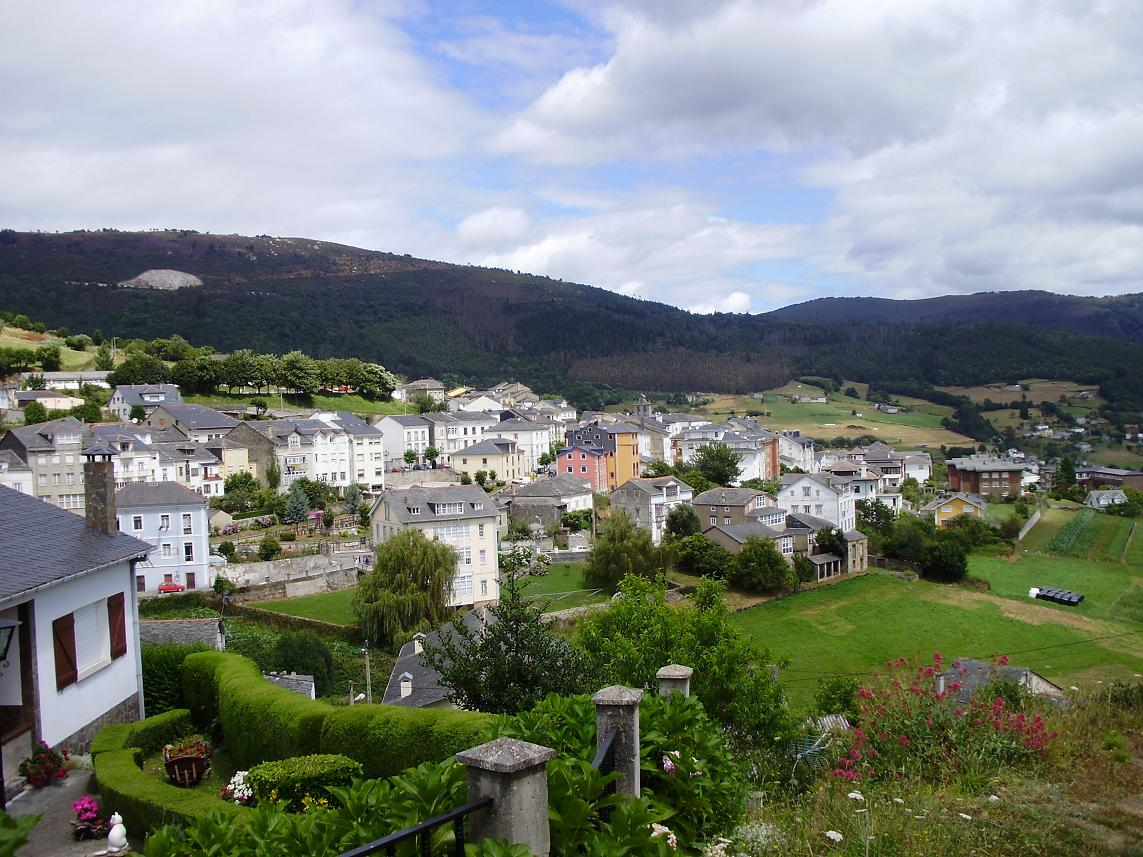 Partial view of Boal (Asturias, Spain). Picture taken in august 2008.